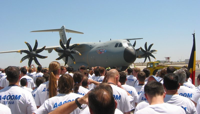 The first Airbus A400M, surrounded by EADS employees, during the aircraft's world-premiere presentation (roll-out), celebrated in Seville on 26 June 2008.